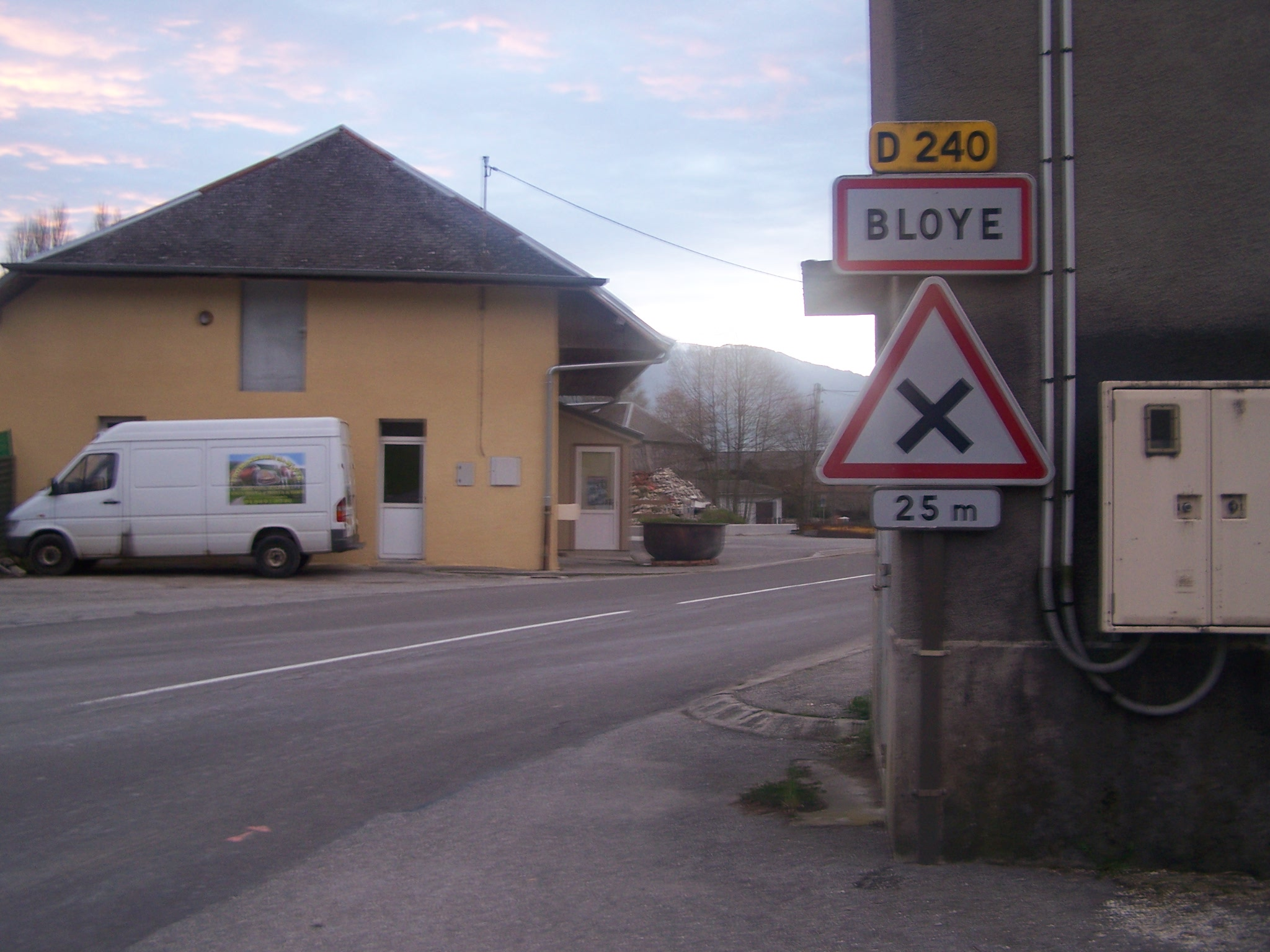 Sign welcoming visitors to the village of Bloye in Haute-Savoie, France on the early morning.